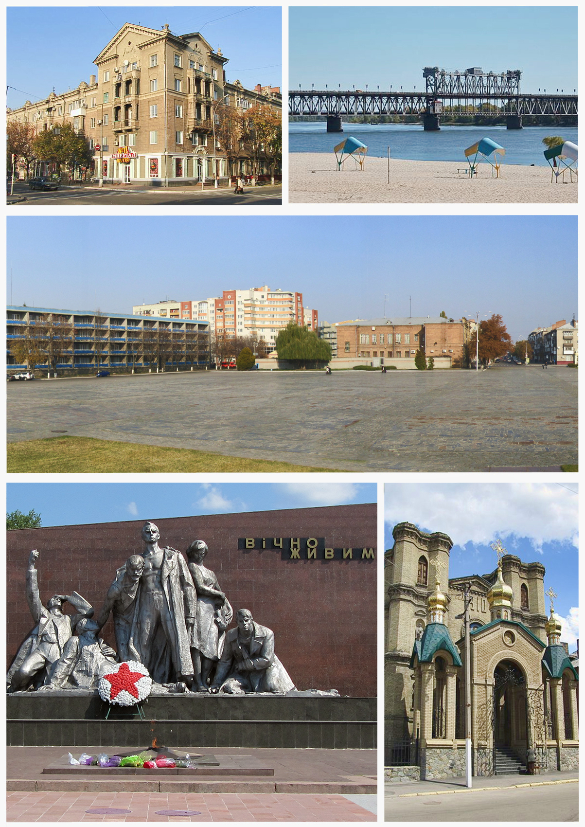 Top row: sight of a cultural heritage: house on Soborna St.; Kryukovsky Bridge. Average row: Victory Square fragment. Bottom row: «Vichno zhyvym» («Eternally alive») Memorial ; Saint Nikolaj cathedral